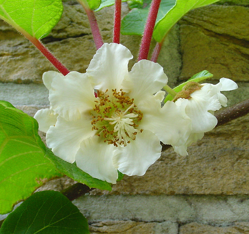 kiwifruit